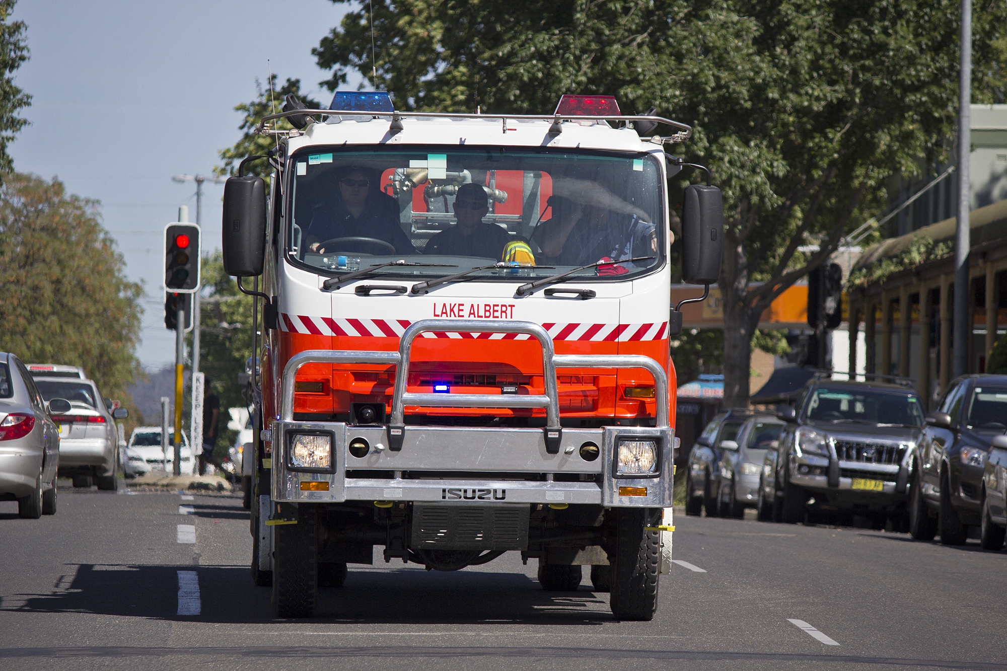 New South Wales Rural Fire Service Category 1 Grassland single cab heavy tanker from Lake Albert on Morgan Street part of the 2012 Pelly's Picnic Day in the Park street parade.